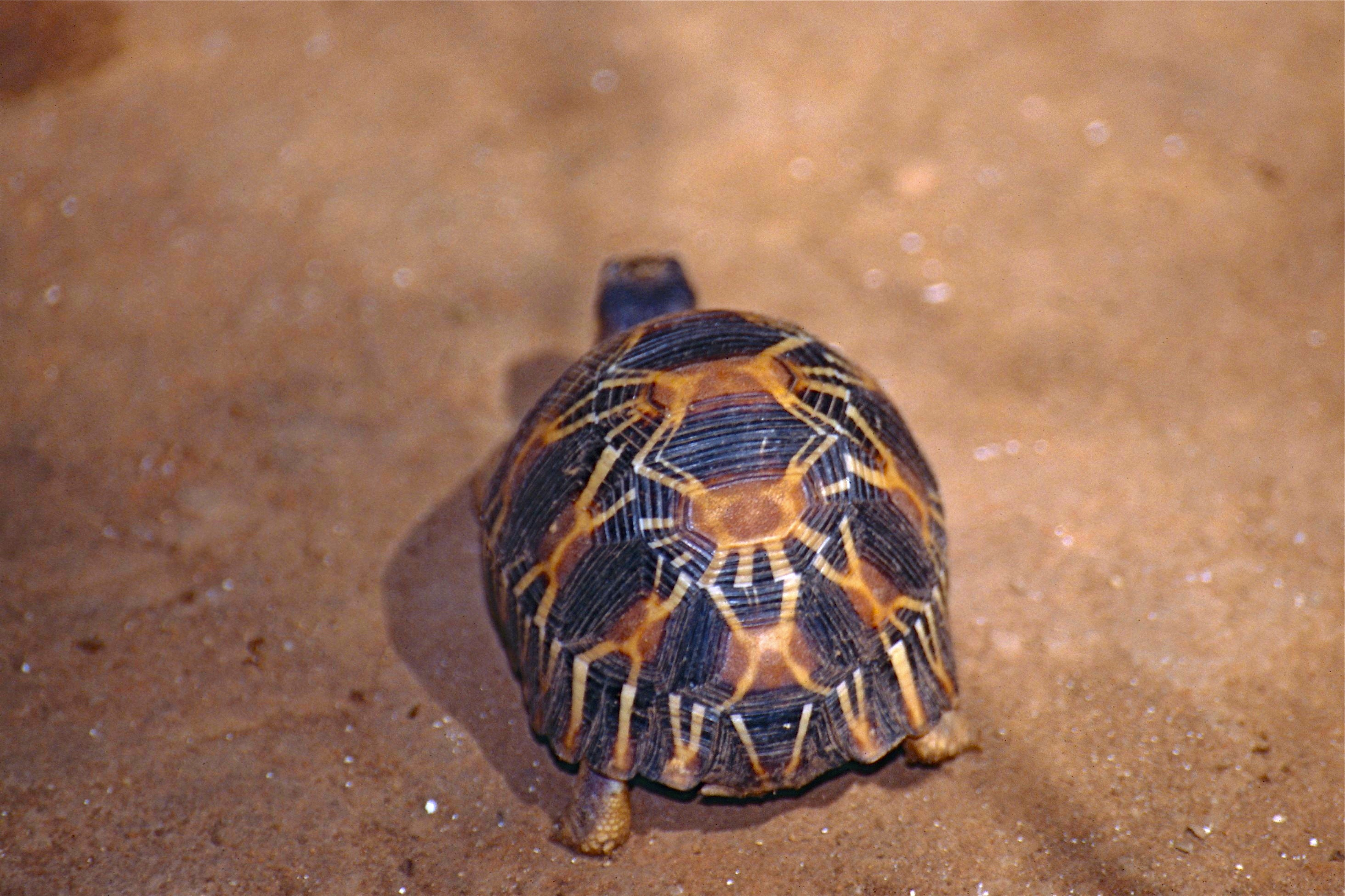 Réserve de Berenty, Amboasary Sud, MADAGASCAR Scanned Slide from 1998